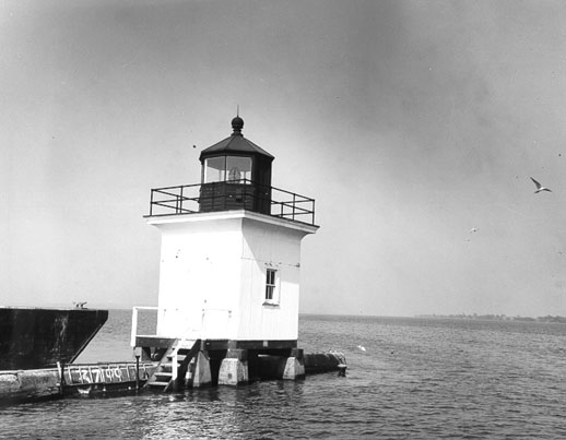 Lighthouse from the Cape Vincent breakwater, in Cape Vincent, NY on the St Lawrence River